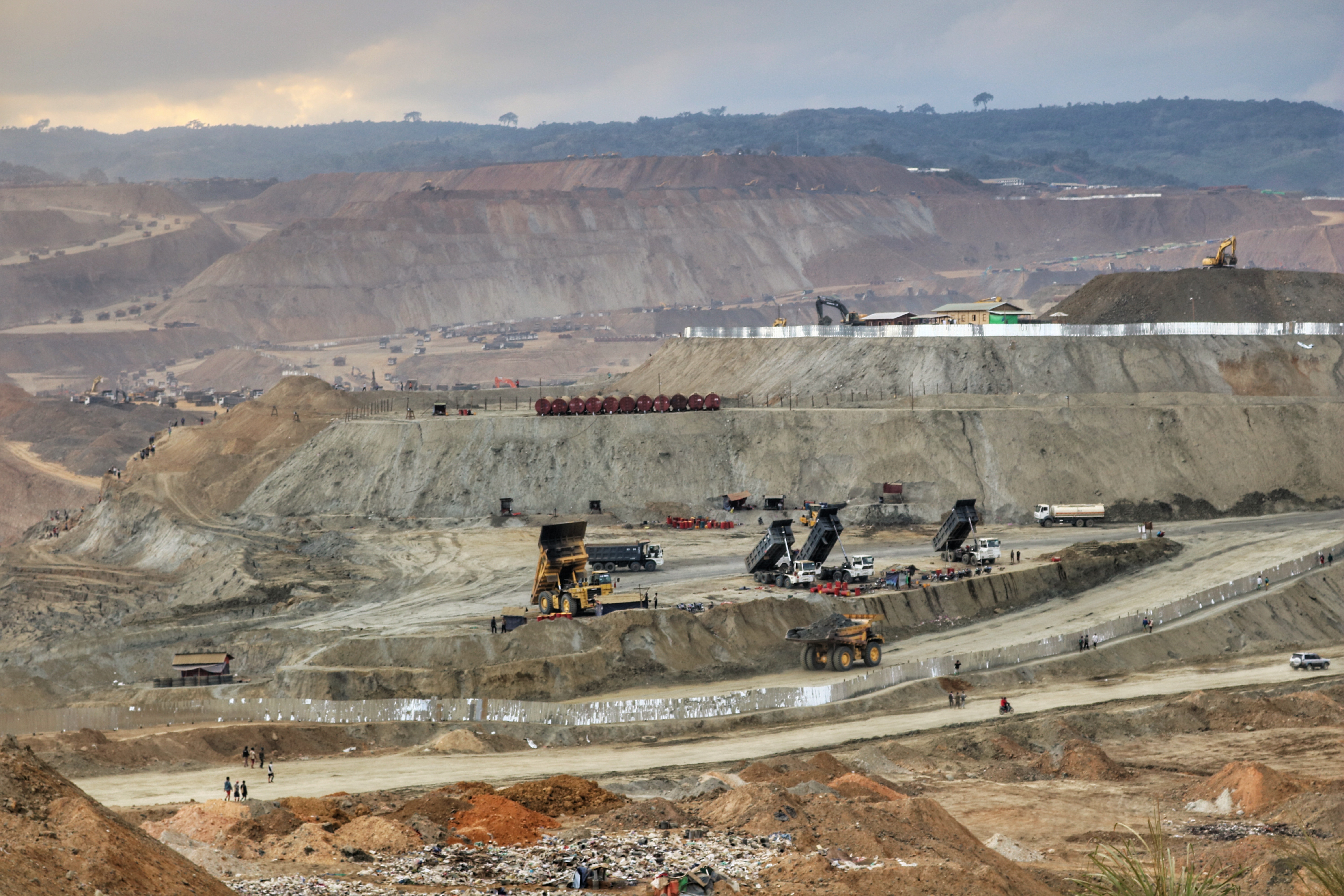 A large company Jade Mine in Hpakant 2018 January